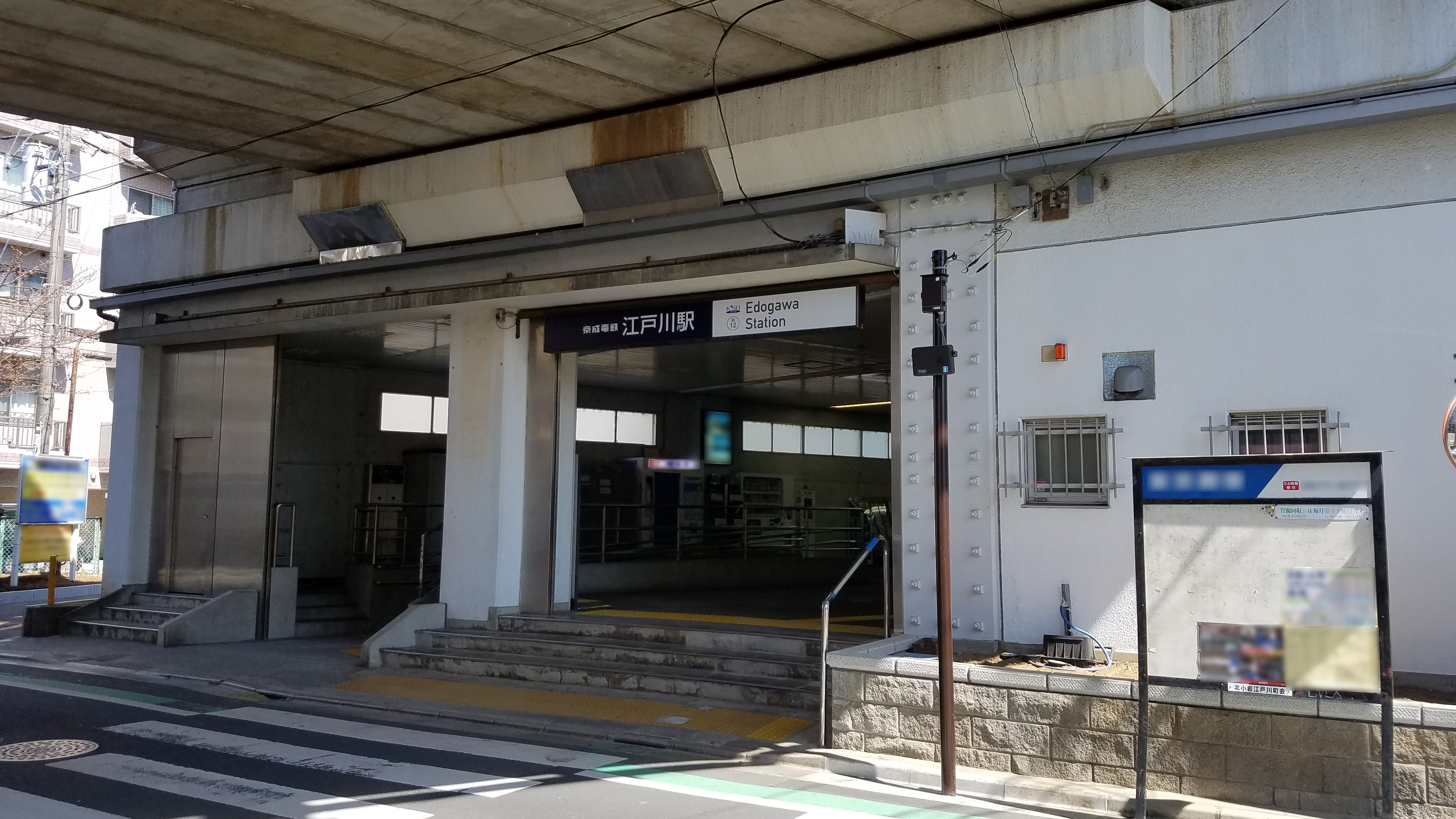 The entrance to Edogawa Station on the Keisei Main Line in Tokyo